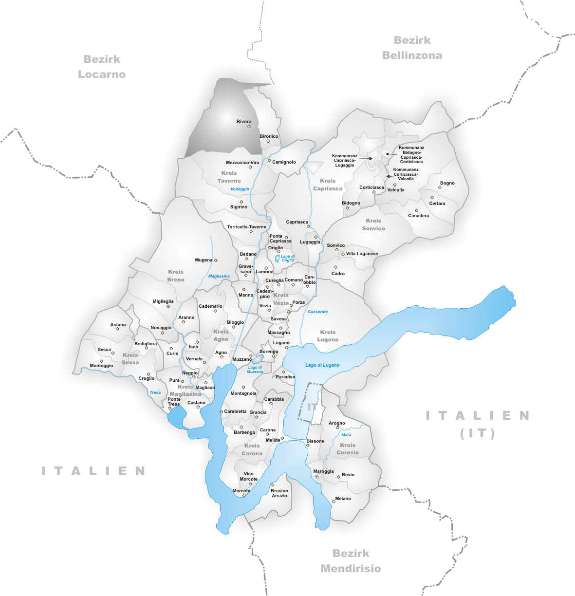 Municipality Rivera